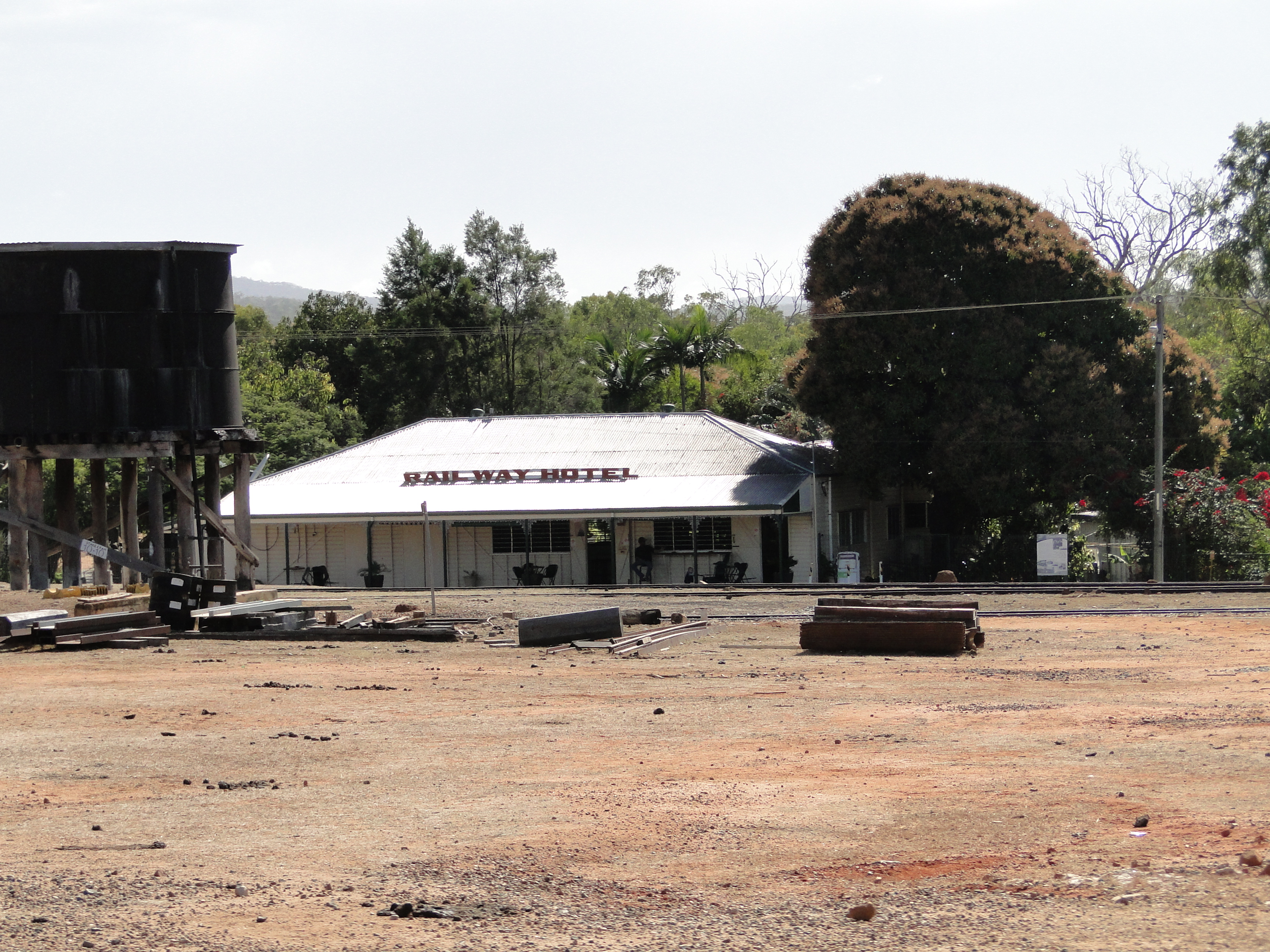 The Railway Hotel, next to the railway line, at Almaden, Queensland, Australia.